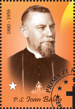 Martyr Bishops in the Order of Saints